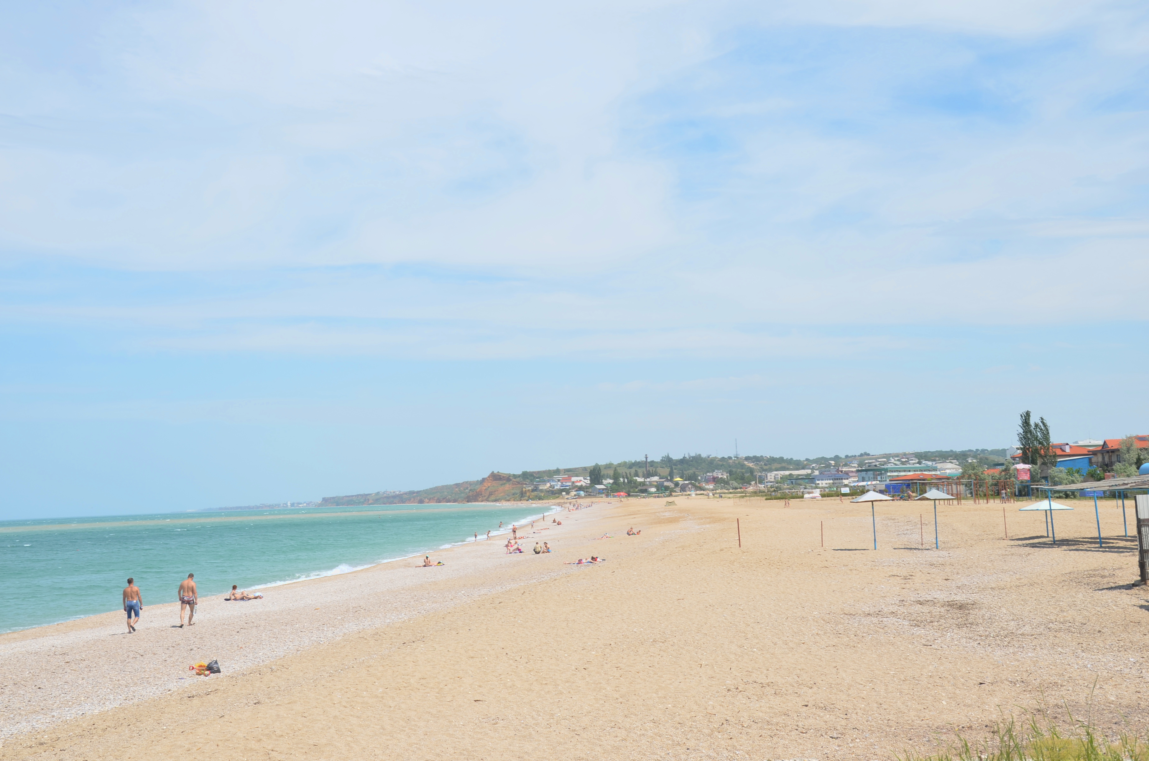 Lyubimovka beach (Sevastopol)